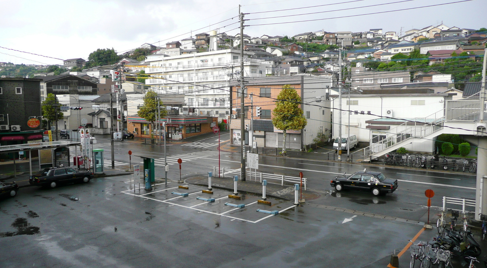 Edamitsu Station plaza,Kagoshima Main Line.